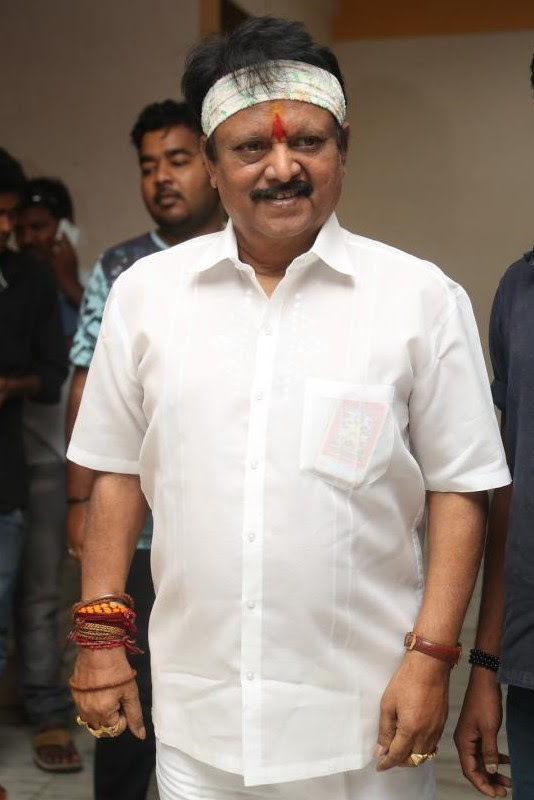 Kodi Ramakrishna Nagabharanam Movie Audio Launch